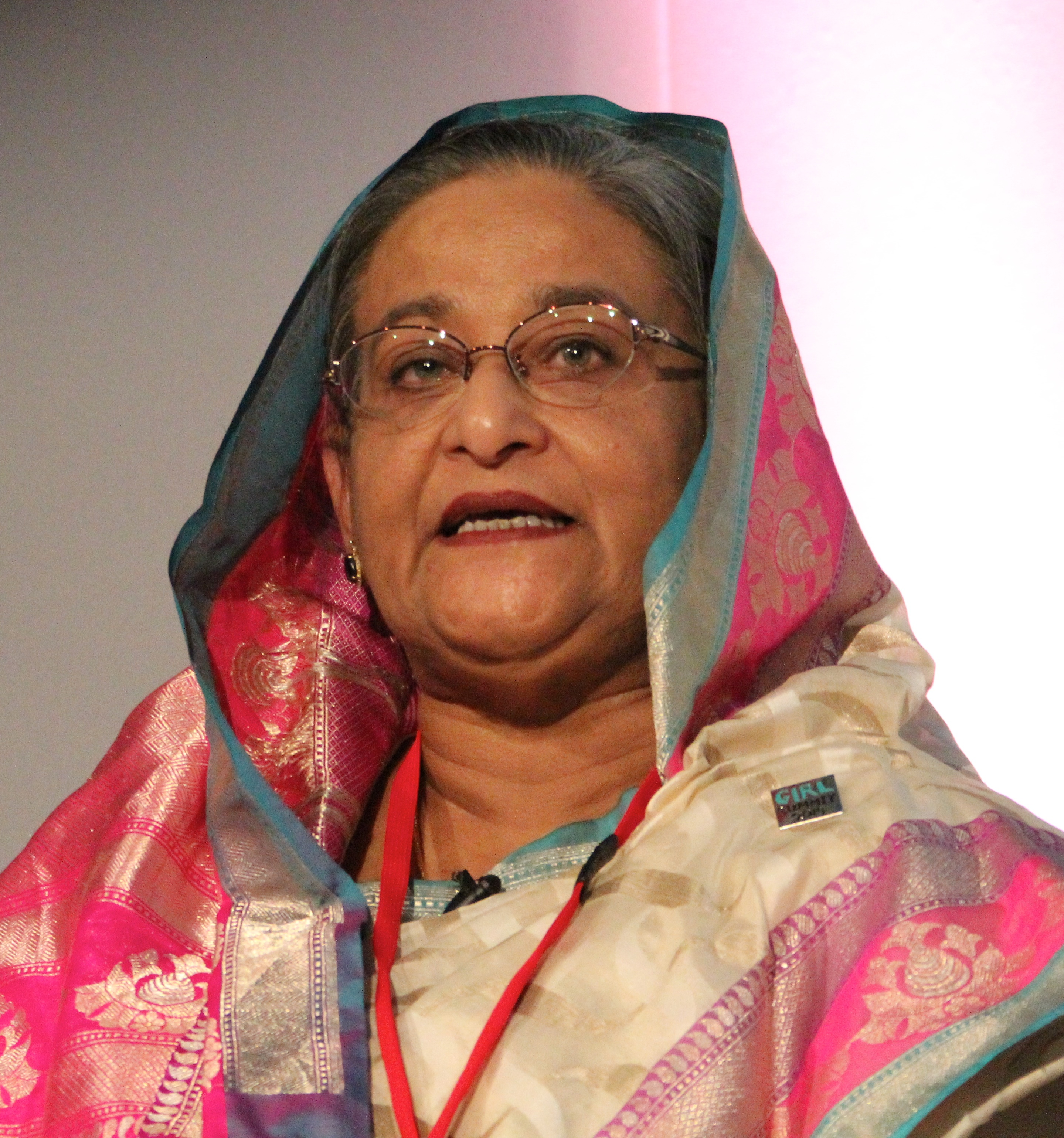 Girl Summit 2014. Picture: Russell Watkins/Department for International Development. Available free under the terms of Crown Copyright/Open Government License/Creative Commons - Attribution